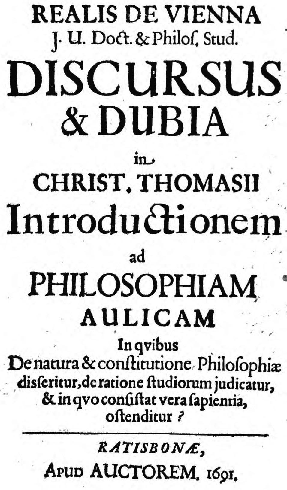 First page of Gabriel Wagner's "Discourse and doubts," published in 1691 and scanned courtesy of Google.